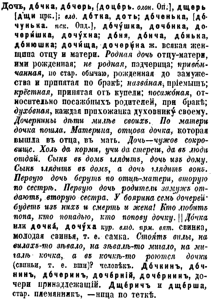 An entry from the "Explanatory Dictionary of the Living Great Russian Language" by Vladimir Dahl, 3rd ed. (1903-1909). This entry is for the word "дочь" ("daughter") and its derivatives.